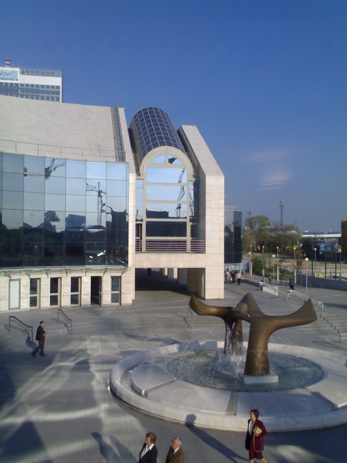 New Building of Slovak National Theatre, Bratislava